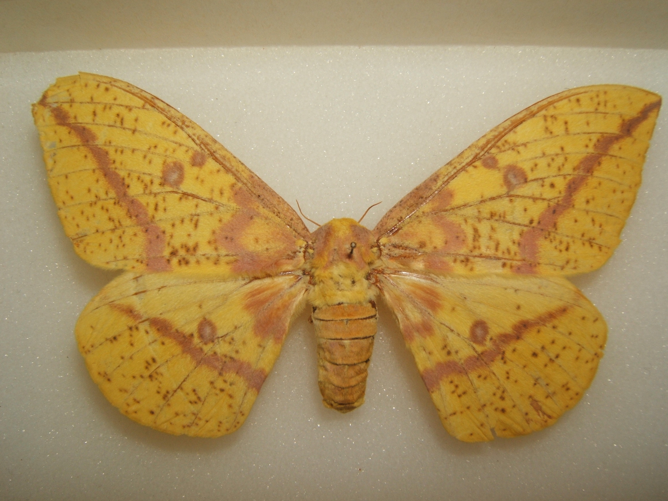 Eacles imperialis adult female taken by Shawn Hanrahan at the Texas A&M University Insect Collection in College Station, Texas.